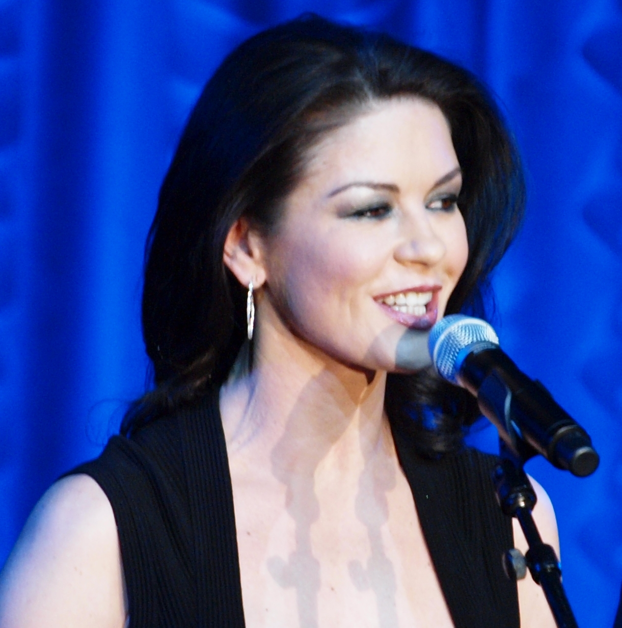 Close-up shot of Catherine Zeta-Jones